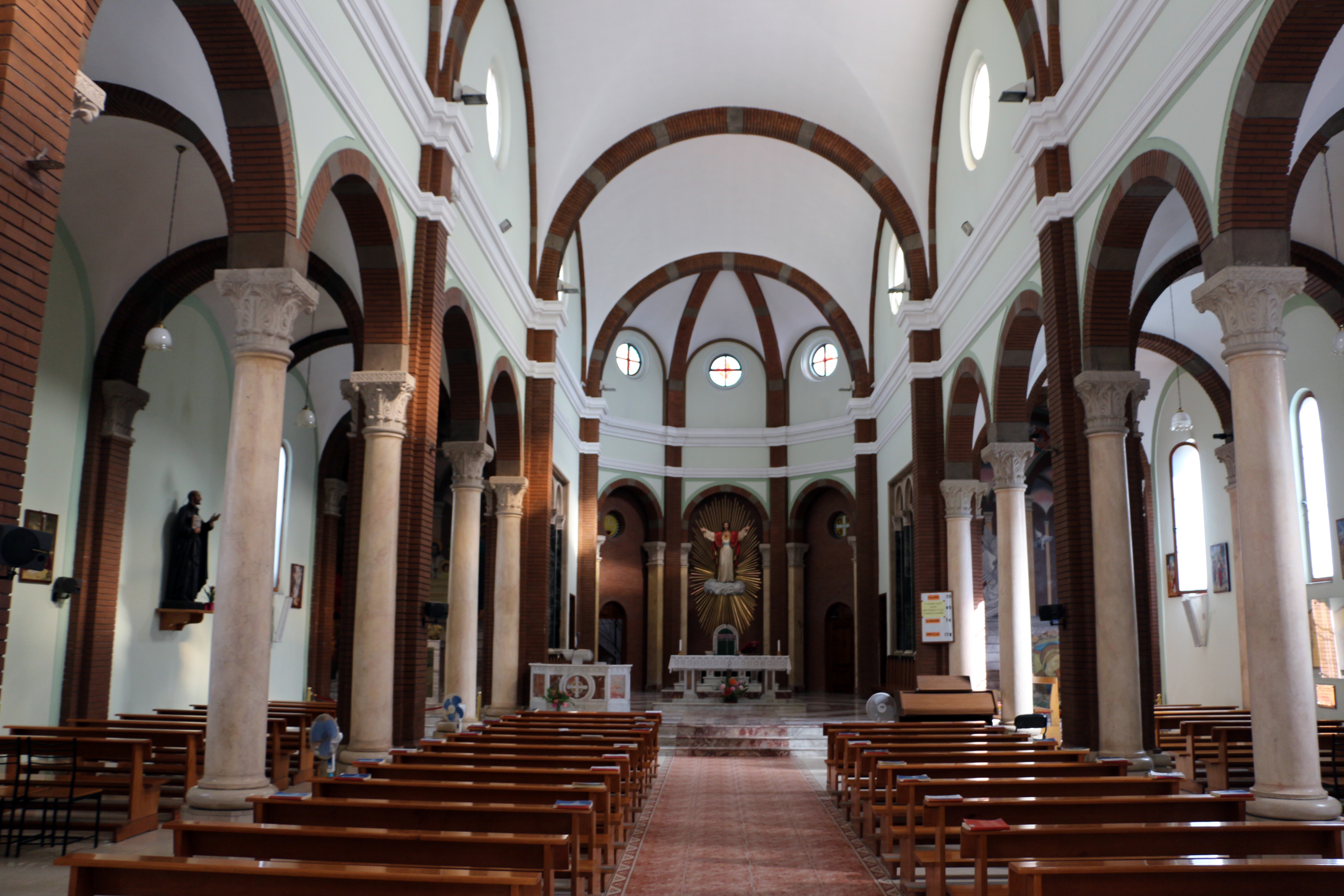 Churches in Tirana